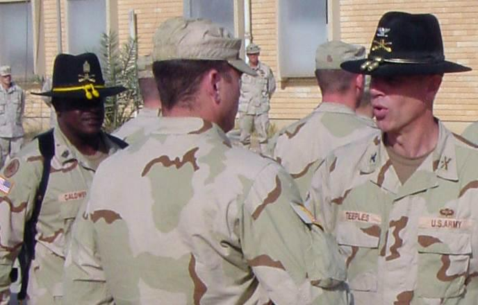 3d Cavalry's commander, COL David Teeples wearing the Cavalry Stetson in Iraq. 3d Armored Cavalry Regiment's Commander in Iraq wearing the Stetson. COL David Teeples is accompanied by the 3rd Armored Cavalry Regiment (ACR) Command Sergeant Major (CSM) John R. Caldwell, the 16th CSM of the 3d ACR. CSM John Caldwell served as the 3rd ACR's CSM from 2002-2005 and Sabre Squadron's (2/3 ACR) CSM prior to being appointed the regimental command sergeant major. The well liked and respected CSM was wounded in an Improvised Explosive Device (IED) attack during the 3rd ACR's (and his) second tour in Iraq on April 17, 2005. PVT Joseph Knott died in the attack, CSM Caldwell would not return to duty.